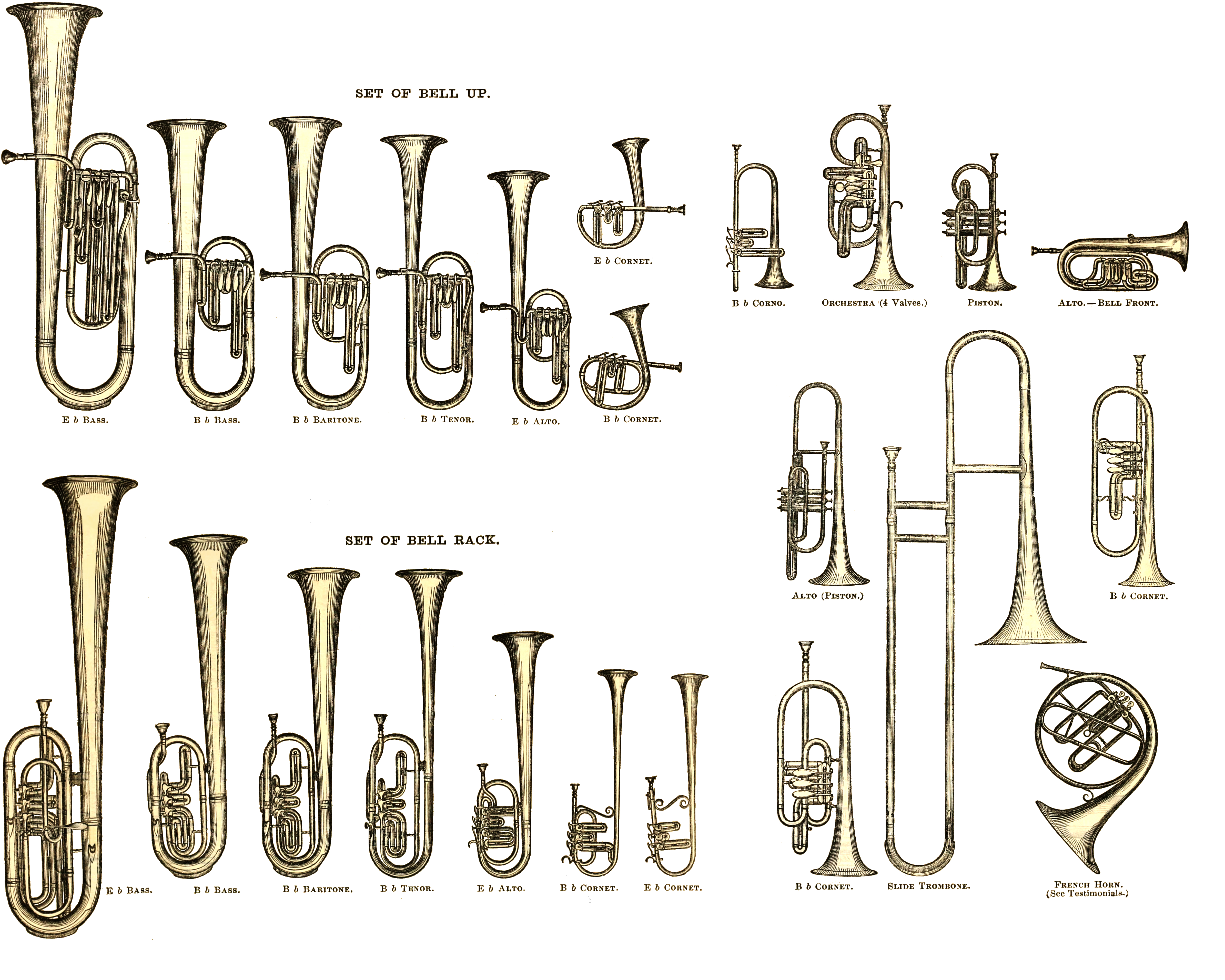 Compendium of images from the 1869 Boston Musical Instrument Manufactury Catalogue Source: Illustrated catalogue of the Boston Musical Instrument Manufactory (formerly E.G. Wright & Co.) (catalog), Boston Musical Instrument Manufactory, 1869., pp. 6–12 Call number ML155 B74 TC Edit: corrected the illustrations from p.6–12 of original catalog, arranged as similar as the layout of Image:Boston 1869 catalogue images.JPG, and corrected the direction of captions. Upright bell horns E♭ Bass. / B♭ Bass. / B♭ Baritone. / B♭ Tenor. / E♭ Alto. / E♭ Cornet. / B♭ Cornet. Cornets B♭ Corno. / Orchestra (4 Valves.) / Piston. / Alto.-Bell Front. (Valve trombone ?) Alto (Piston.) Trombone Slide Trombone (Trumpet ?) B♭ Cornet Over the shoulder horns E♭ Bass. / B♭ Bass. / B♭ Baritone. / B♭ Tenor. / E♭ Alto. / B♭ Cornet. / E♭ Cornet. (Flugelhorn ?) B♭ Cornet French horn